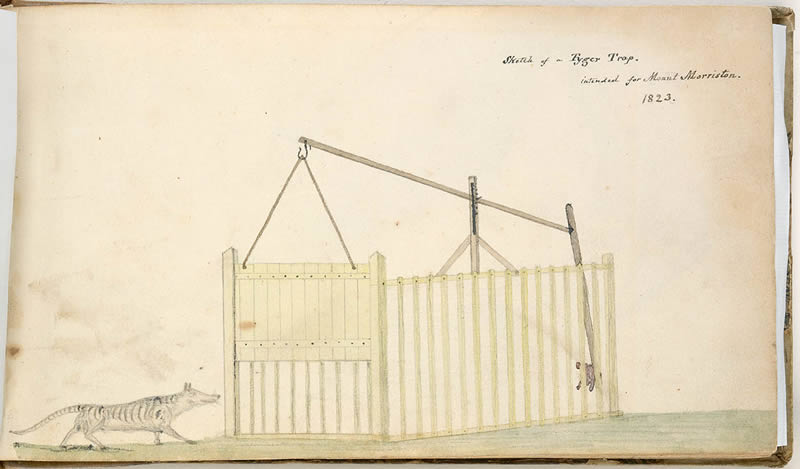 "Sketch of a Tyger Trap intended for Mount Morriston".